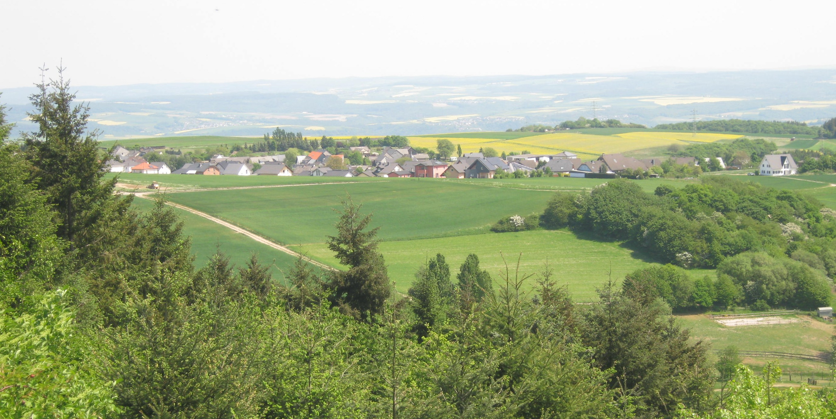 Karbach, Hunsrück.